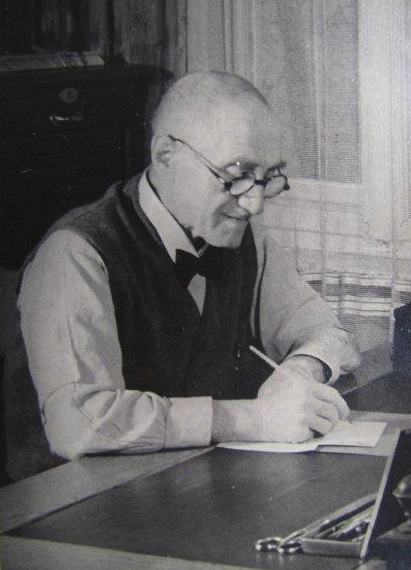 Josef Bernhard Schwab, editor at the Berliner Tageblatt